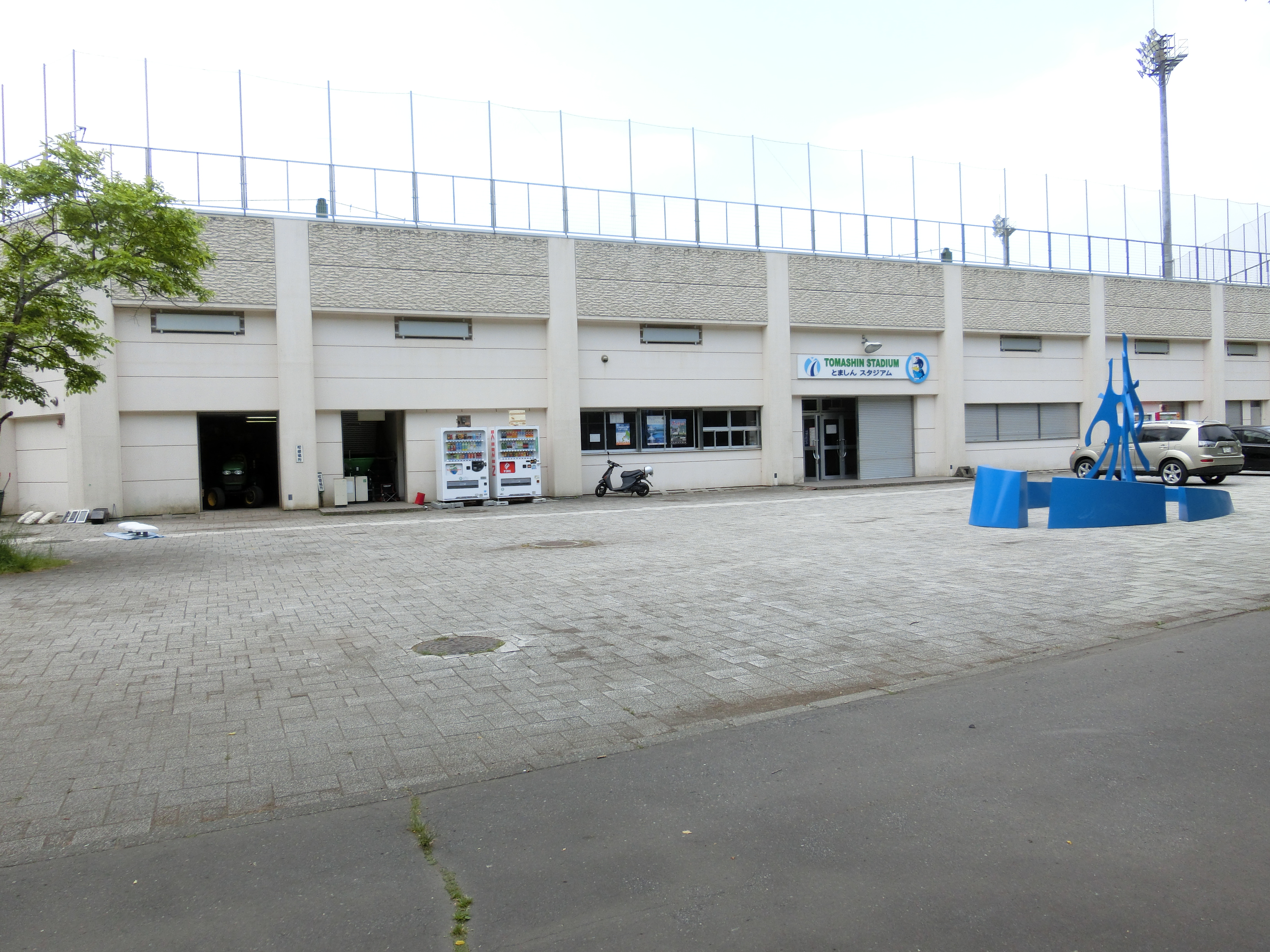 Baseball of Midorigaoka Park (Tomashin Stadium) located in Shimizucho, Tomakomai, Hokkaido